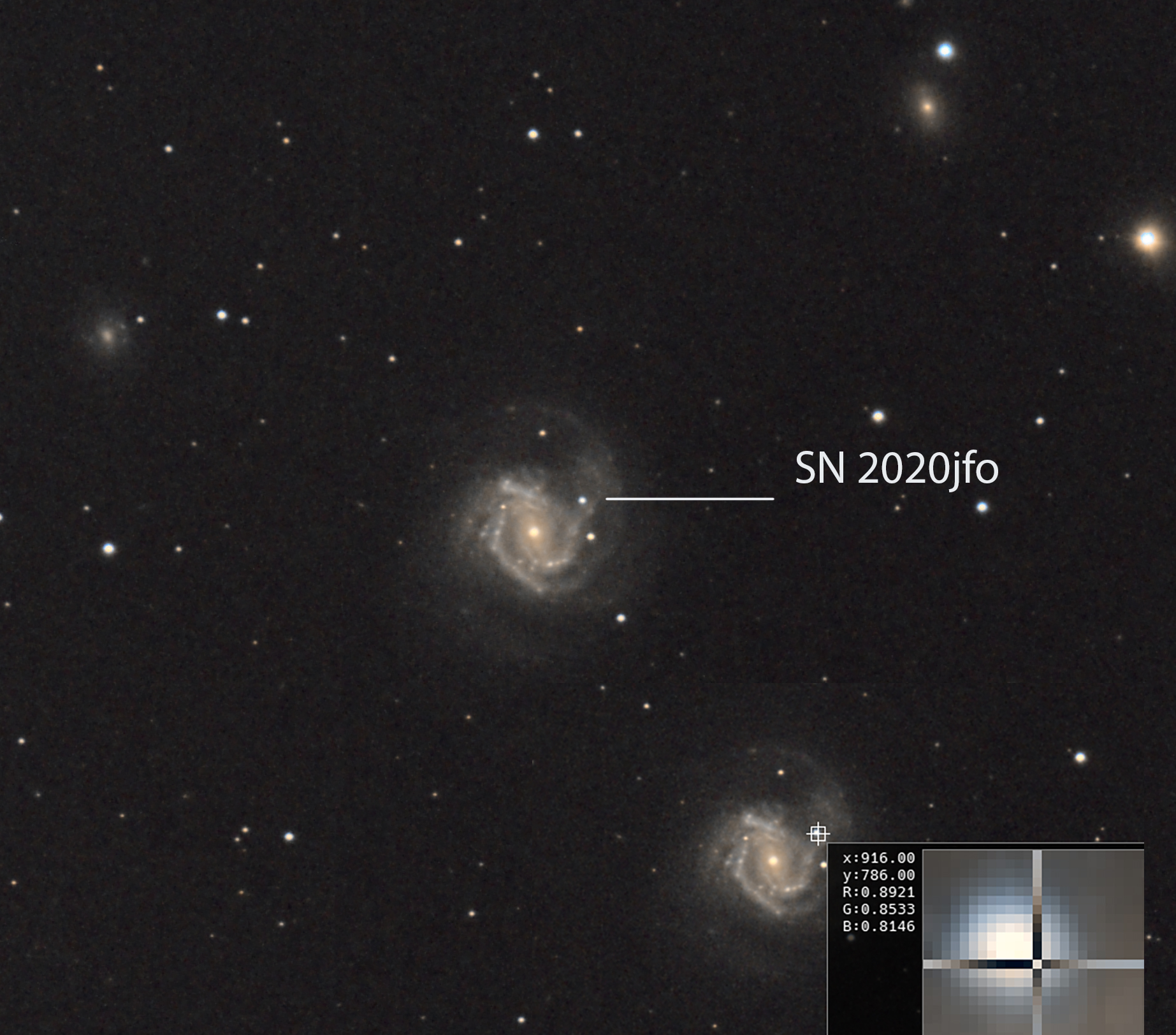 This SN2020jfo is quite bright, observed on May 15, 2020 as recorded by Raman Madhira from Ray's Astrophotography Observatory. A 11 inches RASA telescope plus a color CMOS was used